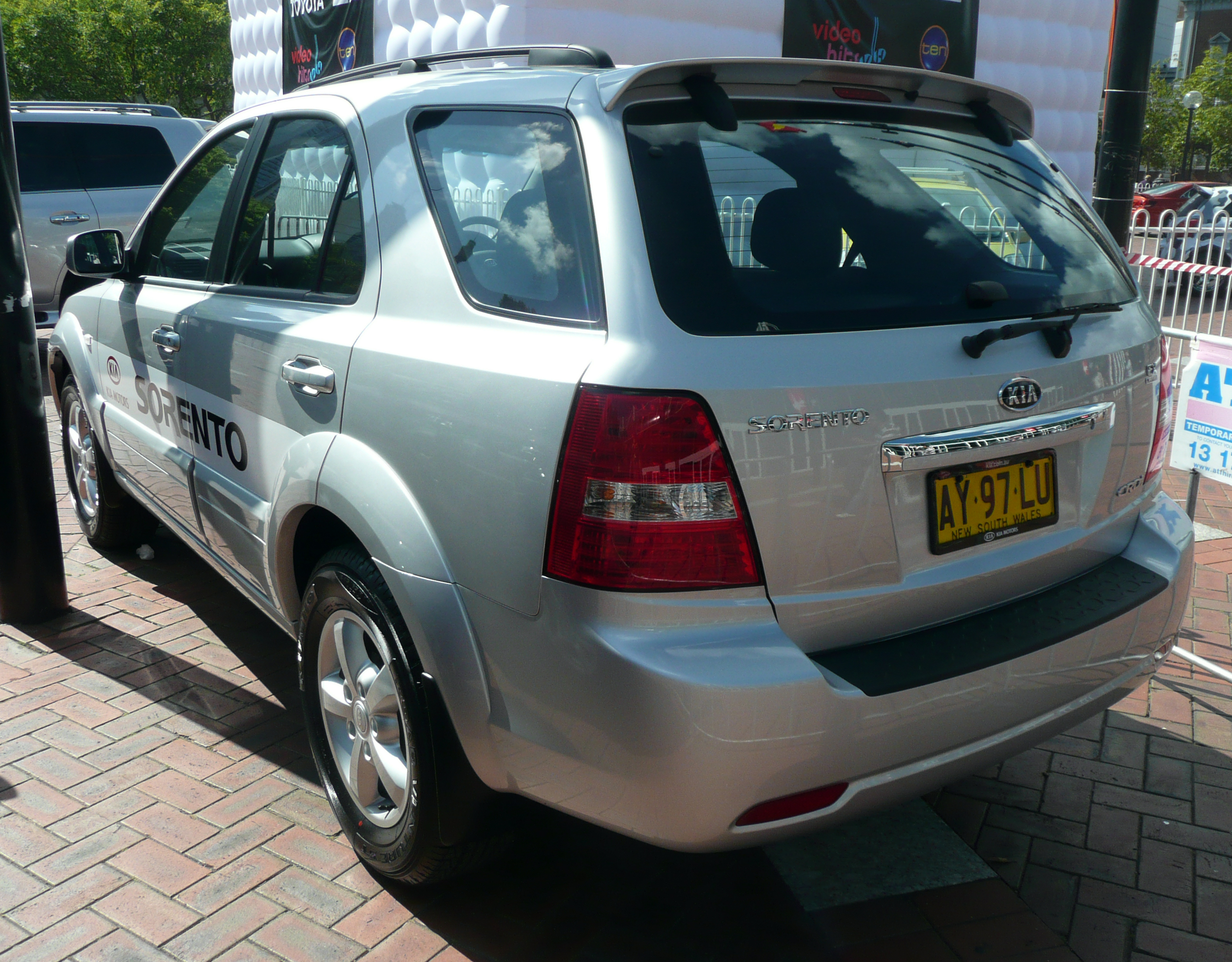 2007–2008 Kia Sorento (BL) EX-L CRDi. Photographed at the 2008 Australian International Motor Show, Sydney, New South Wales, Australia.